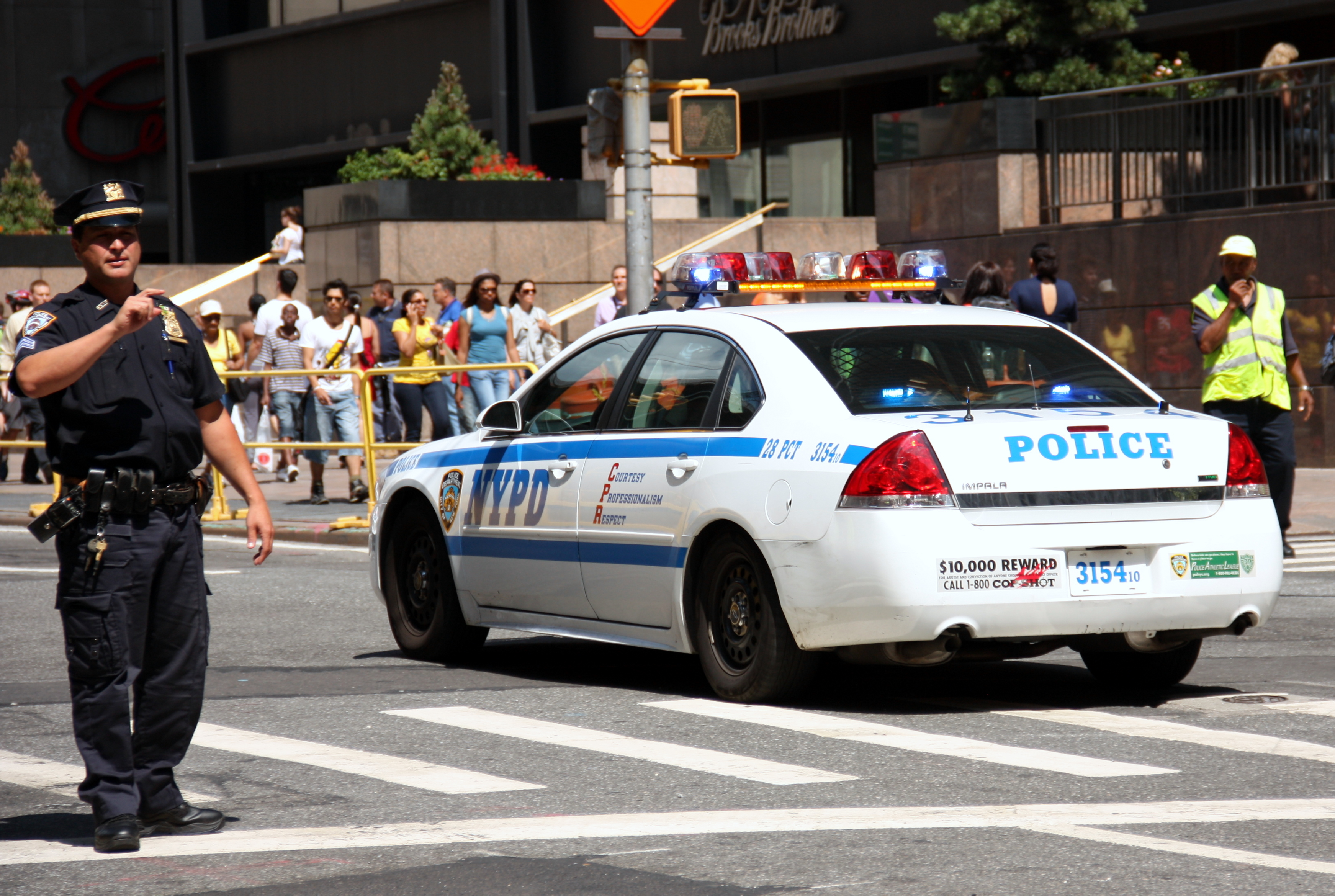 28th Precinct New York Police Department